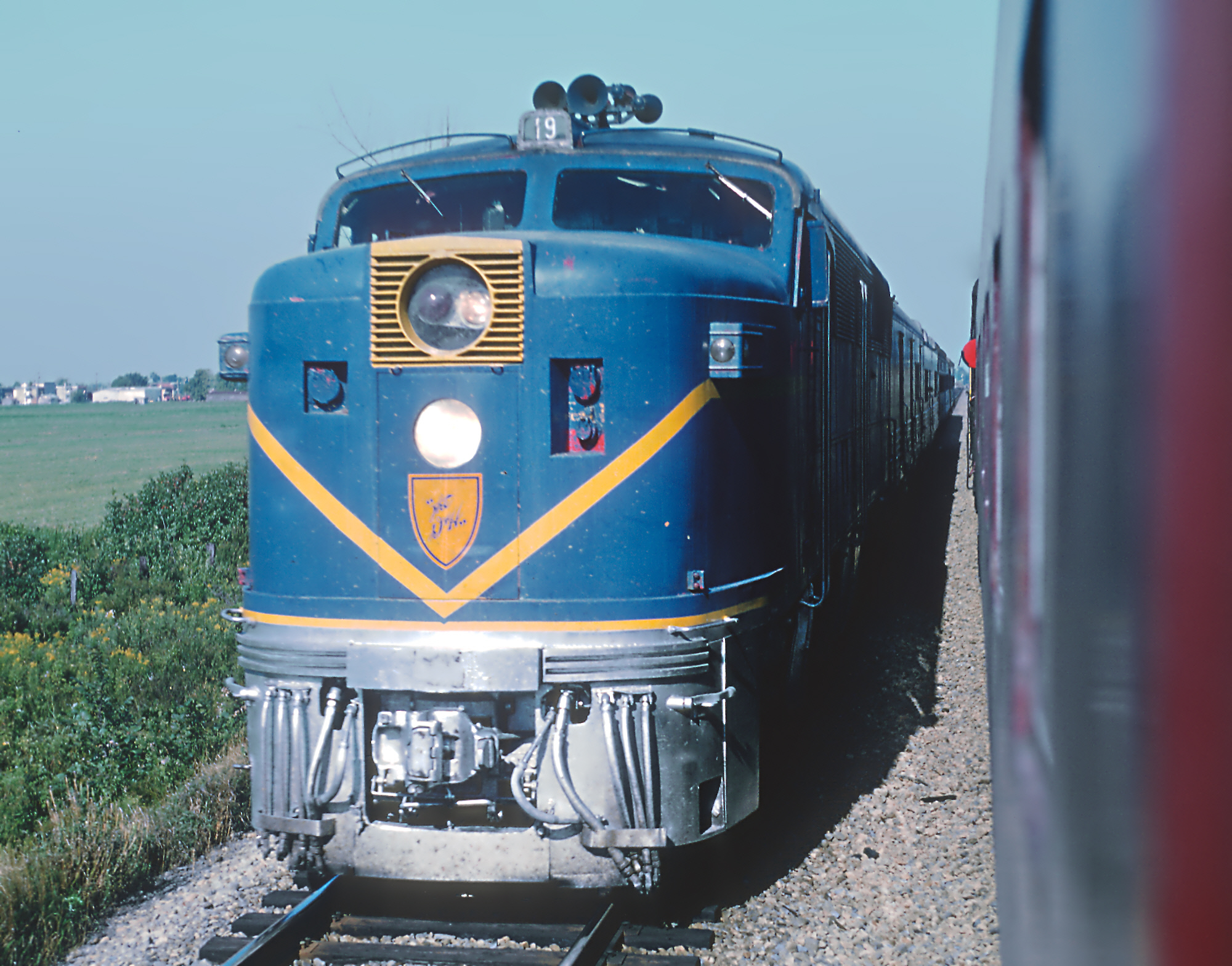 D&H PA-1 19 with Napierville Junction Railway's Train 34, The Laurentian, passing Train 9, The Montreal Limited, near Delson, Que. on September 1, 1968. Look at the red coming through. Roger Puta's photograph.